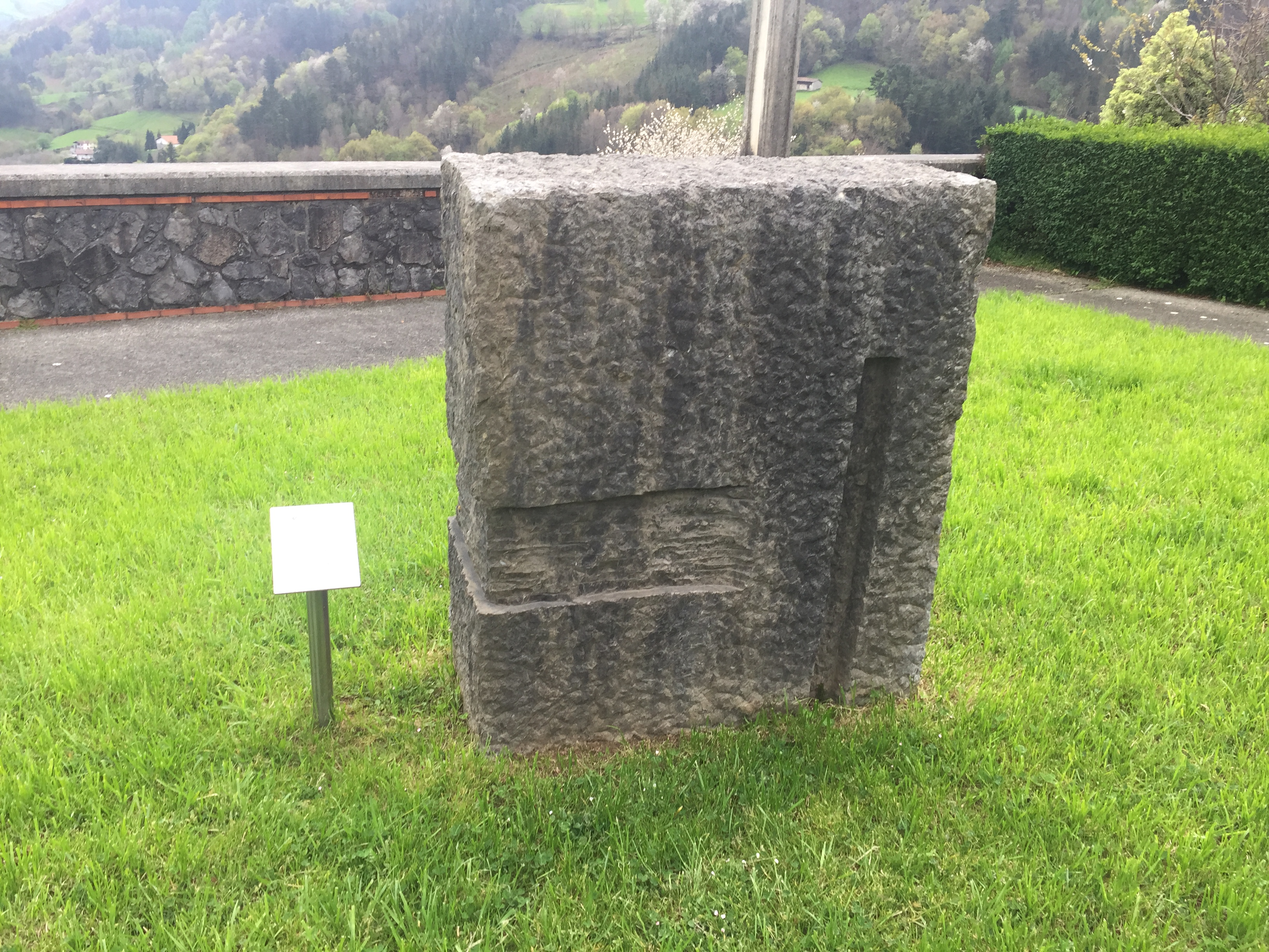 Memorial of Antonio Zubiaurre in Alkiza by Koldobika Jauregi